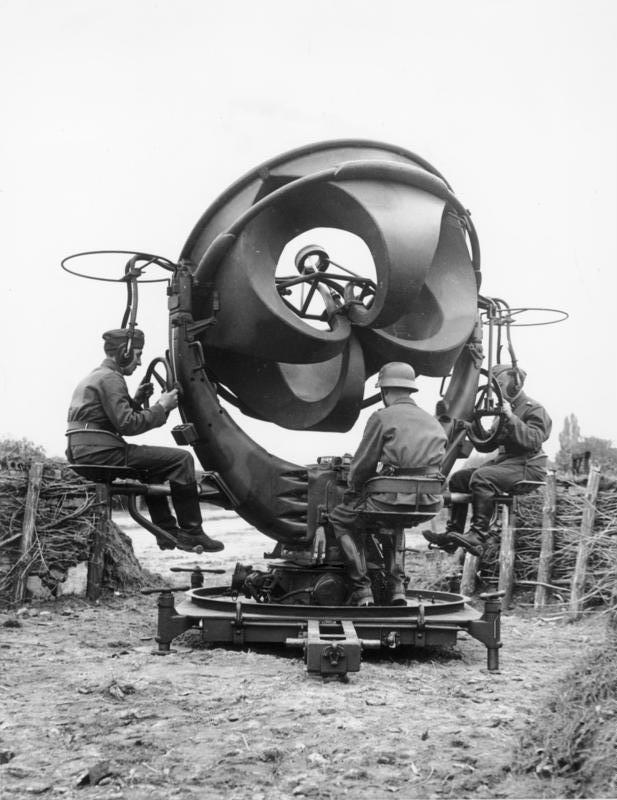 "Berlin flak protection" "All around the capital in a wide arc lies a broad iron line of defense, the safe haven of the imperial capital from enemy attacks from the air. Day and night the men of the air defense, whether on anti-aircraft gun, searchlight, or listening device, are on the watch. We take photographs of the visit of our reporter to the anti-aircraft artillery. Shown here: one of the giant listening devices that can capture even the slightest noise of an engine." Fo:. Ice. October 1939 13033-39 This is an acoustic aircraft detection device. In World War 2, before radar was developed, these devices were used to detect approaching enemy aircraft by listening for the sound of their engines. It consists of 4 acoustic horns, a horizontal pair and a vertical pair, connected by rubber tubes to stethoscope type earphones worn by the two technicians left and right. The stereo earphones enabled one technician to determine the direction and the other the elevation of the aircraft.